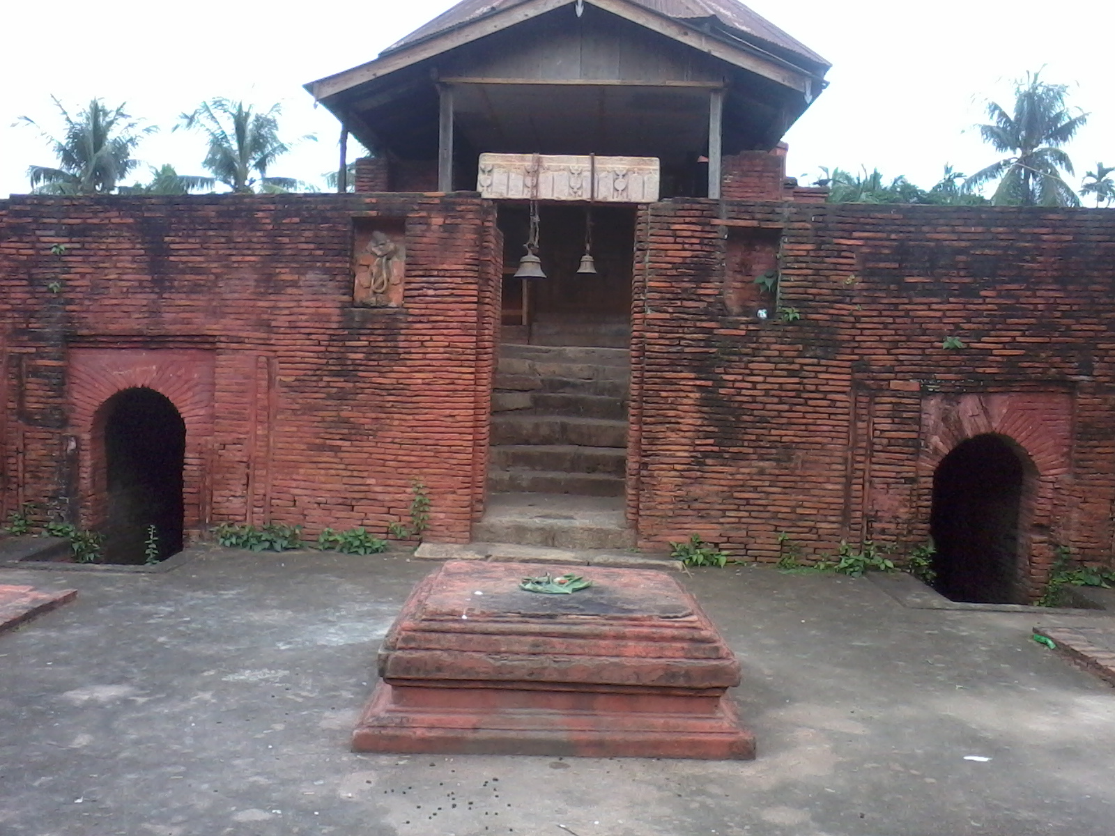 visited Rudreswar Devaloya in North Guwahati and took the photo